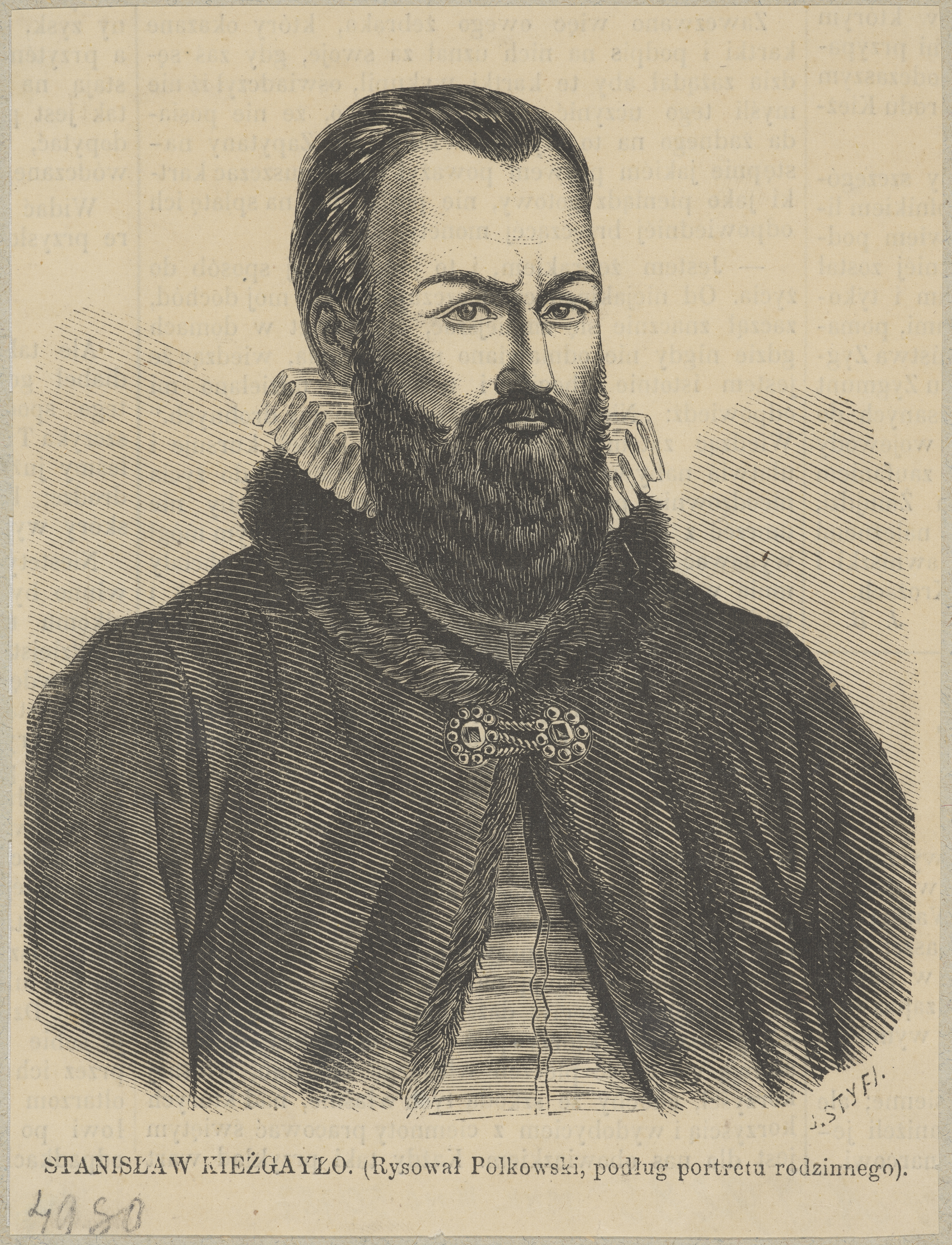 Stanisław Kieżgajło, ? - 1555